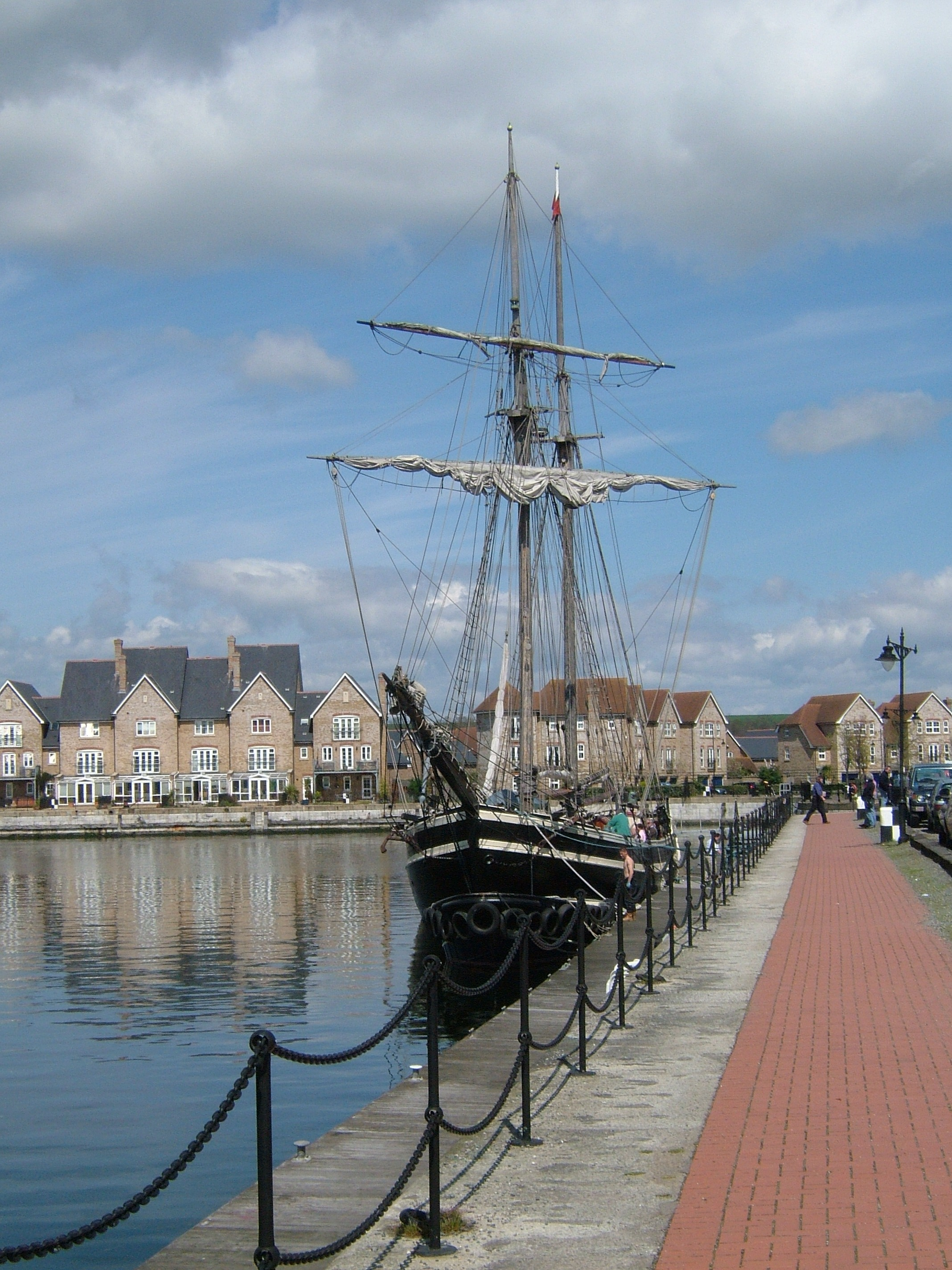 Attrib: Clem Rutter, Rochester. Chatham Dockyard, Kent. The Topsail Schooner Julia visiting the No 1 basin in 2006, behind her you can see the St Mary's Island, and the new houses built on former industrial land. (Note: I uploaded this to commons under he slightly better name ChathamDockyardJulia&Basin.JPG- and independently this file was transfered from :en User:ClemRutter) Category:Medway Category:Royal Navy